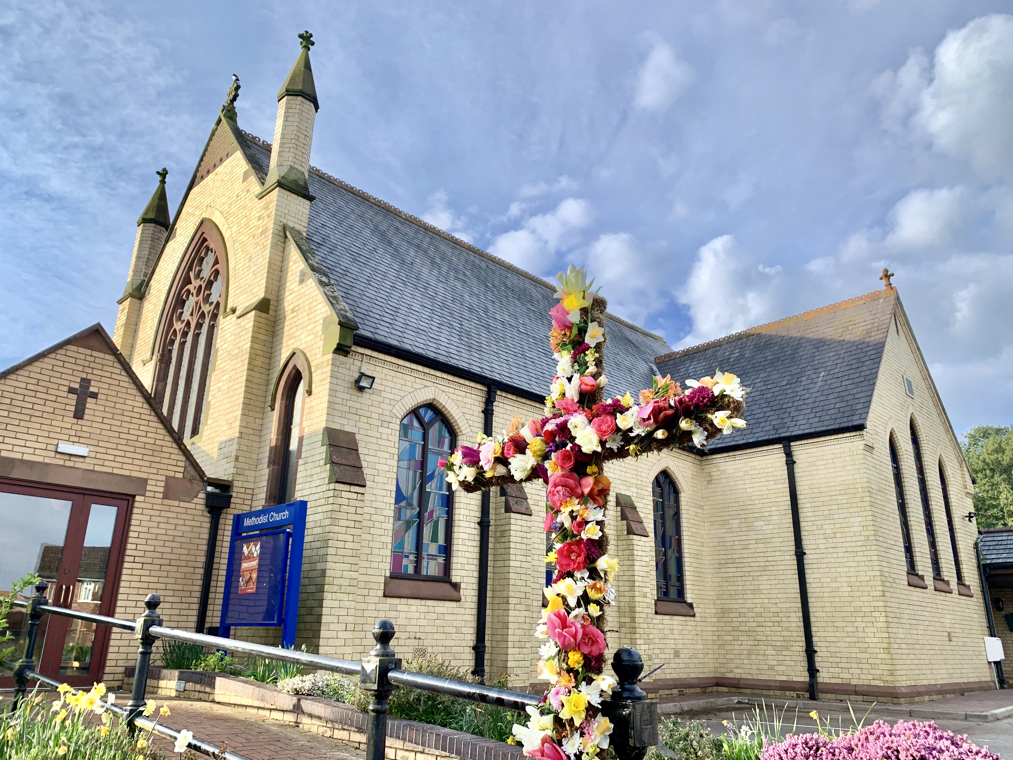 Frodsham Methodist Church decorated for Easter 2020.